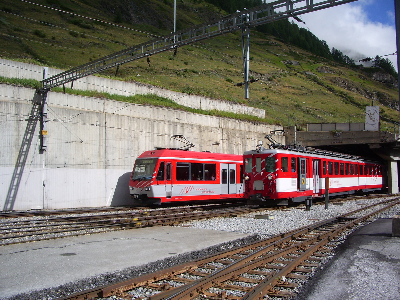 MGB BDSeh 4/8 2052 and ABDeh 8/8 2041 in Zermatt